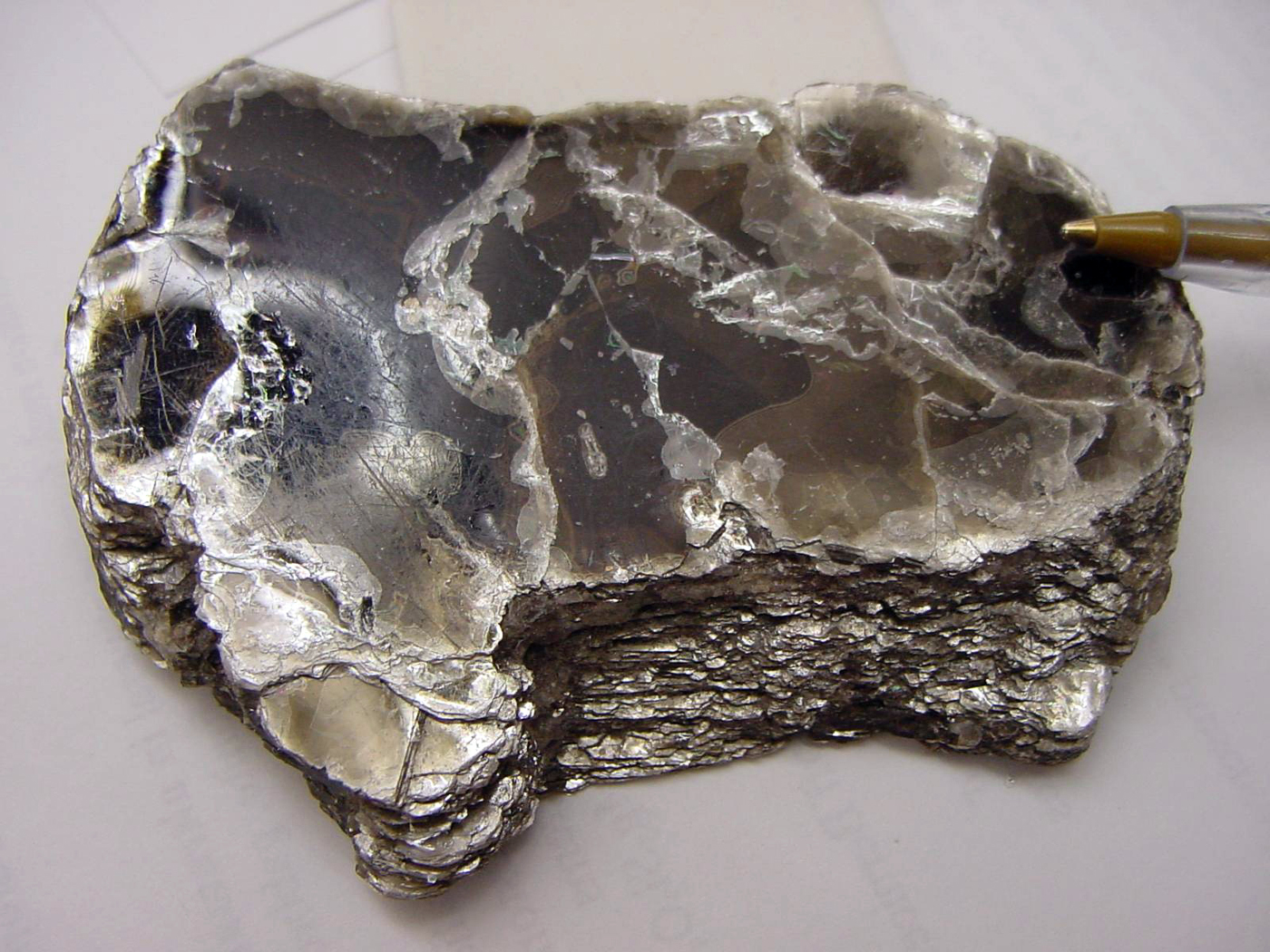 Phlogopite (pen for scale) - Mineral collection of Brigham Young University Department of Geology, Provo, Utah - No BYU index, KMg3[(OH,F)2|(AlSi3O10]